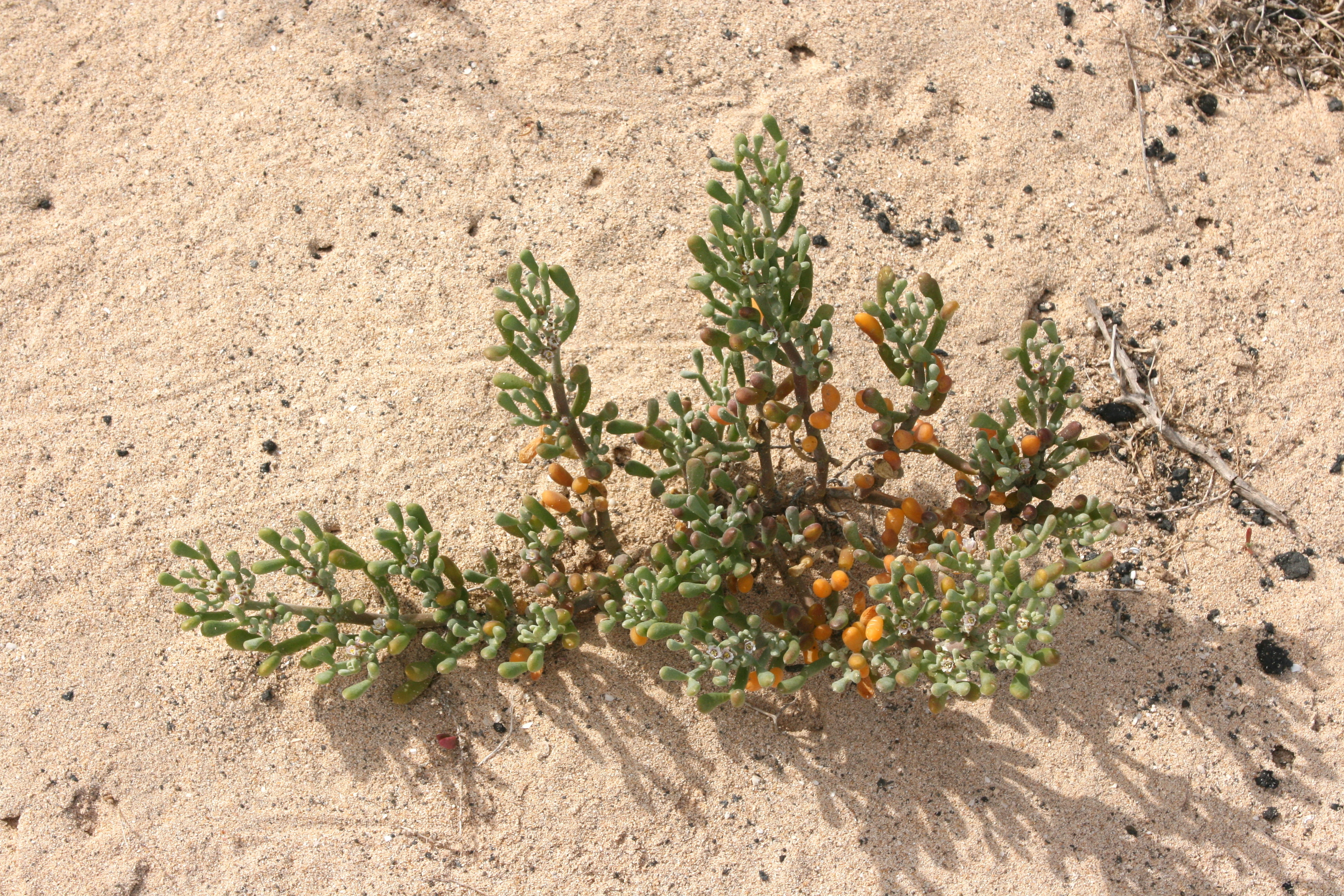 Zygophyllum fontanesii growing at El Rio, a former salt evaporation pond now transformed into a lagoon used for sports and recreation, Diseminado la Sta Sport in La Santa, Tinajo, Lanzarote, Canary Islands